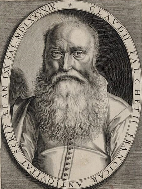 French historian Claude Fauchet (1530-1602) by Thomas de Leu (1560-1612).